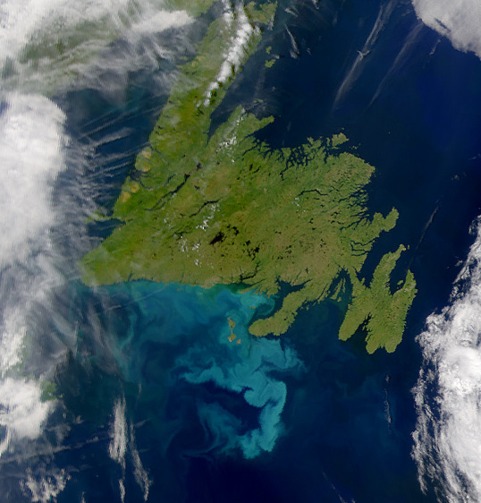 A large coccolithophore bloom off the southern coast of Newfoundland (Canada) colored the normally dark North Atlantic waters a bright turquoise